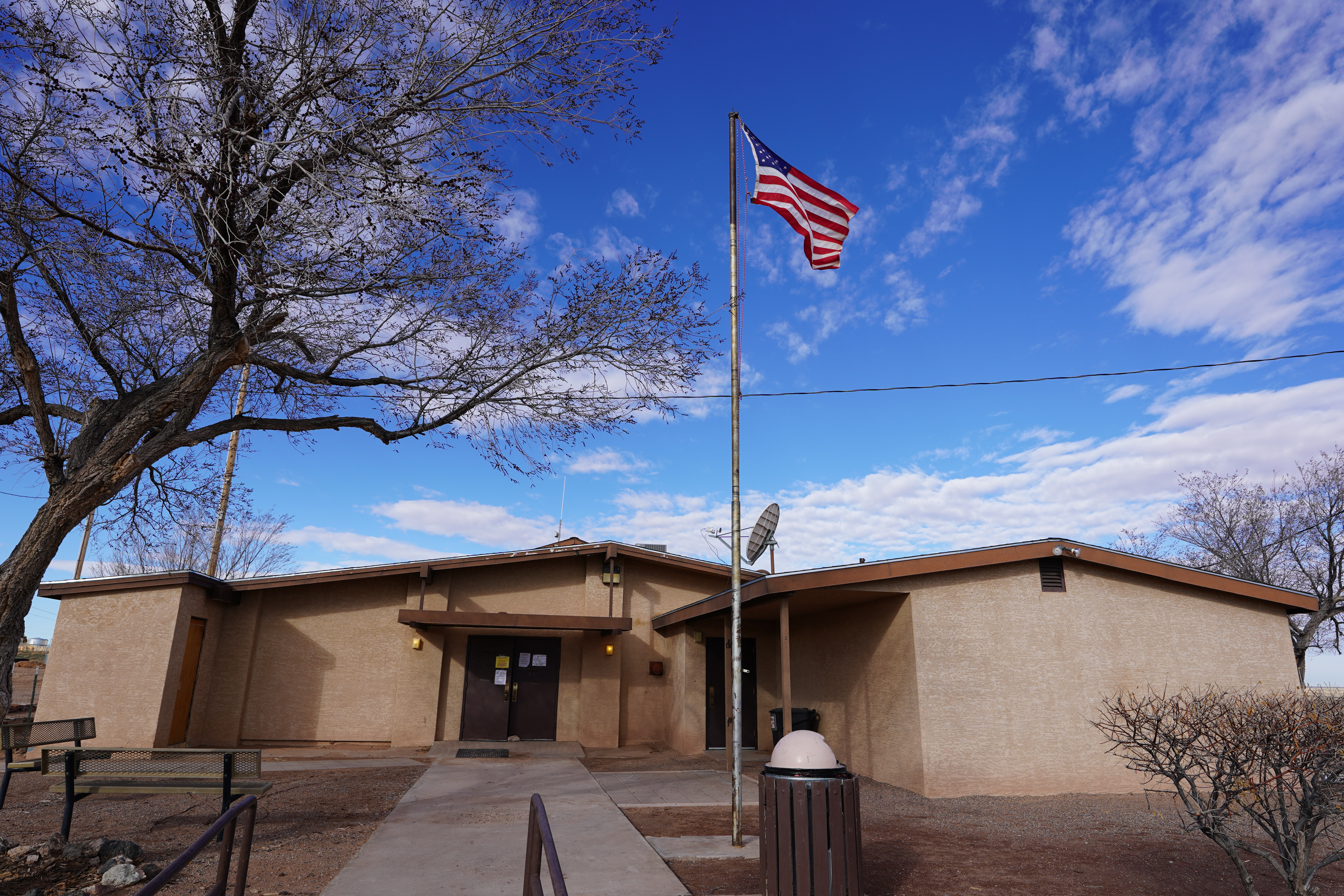 The photograph is of the Navajo Nation Chapter House for the Tonali Lake Chapter. Photograph taken on 2019-02-27T15:56:03Z.